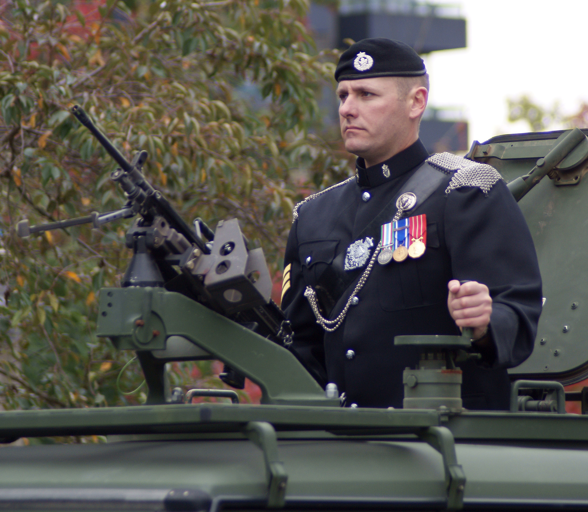 A sergeant mounted on a reconnaissance vehicle of the British Columbia Regiment (Duke of Connaught's Own) (RCAC) during the unit's 125th anniversary parade at Vancouver City Hall, October 11, 2008.